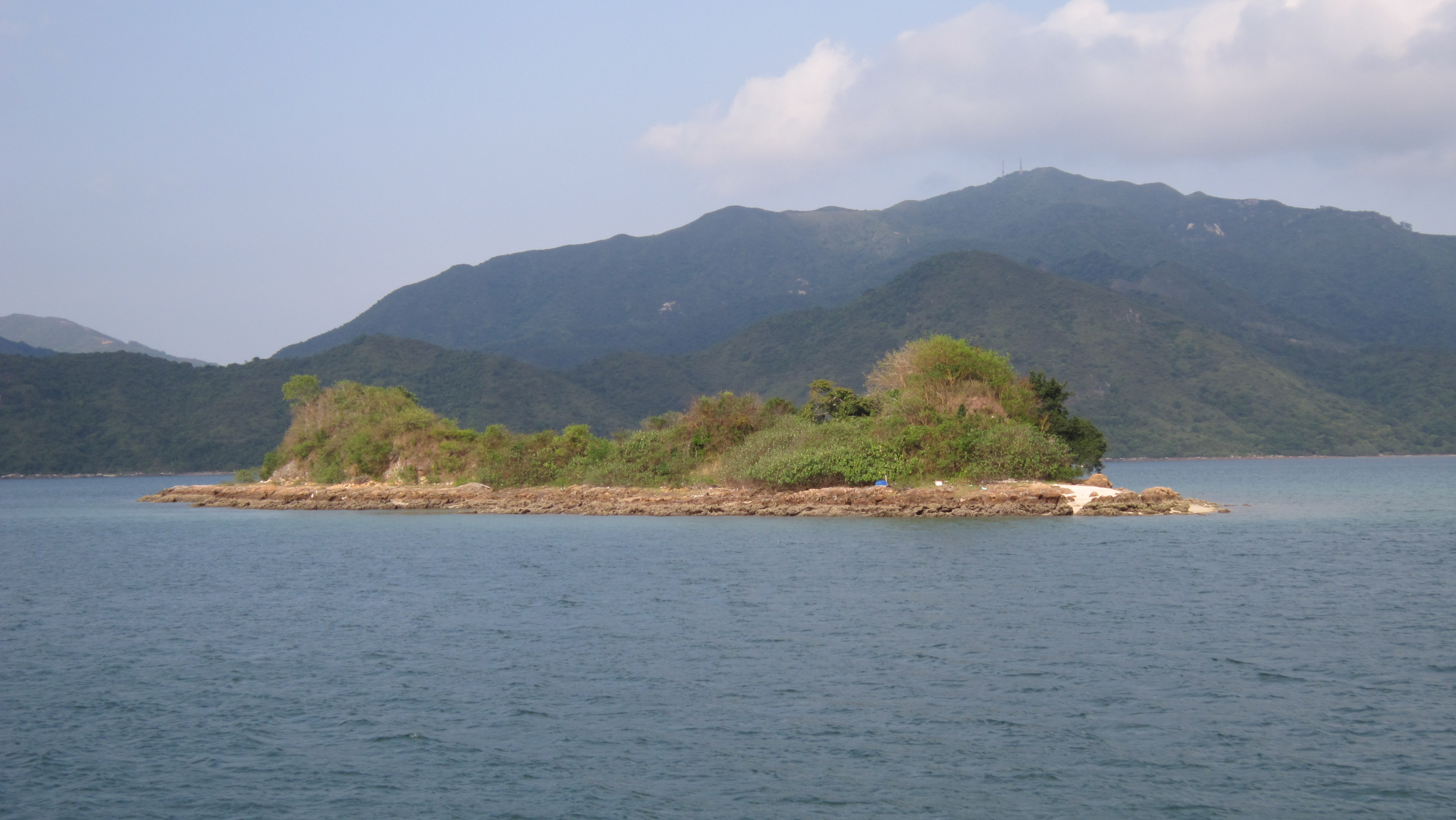 從井頭碼頭遠眺三杯酒中文（香港）: Sam Pui Chau seen from Tseng Tau Pier